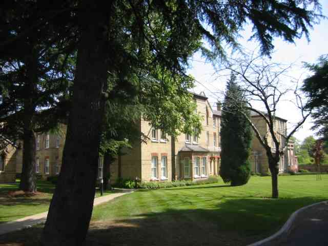 Leavesden Court , Woodside. These buildings were the front face of the hospital